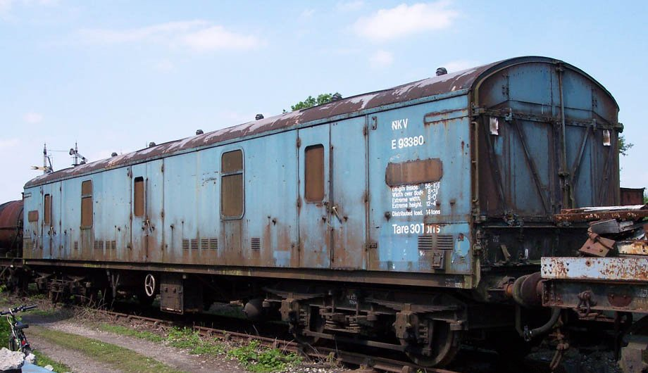 A British Rail General Utility Van (GUV) in the plain blue lvery introduced in 1964. The lack of footsteps beneath the doors shows it to be one modified to carry BRUTE trolleys.